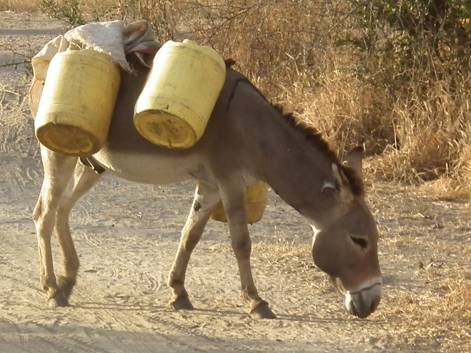 African Donkey, Equus asinus, in Tanzania